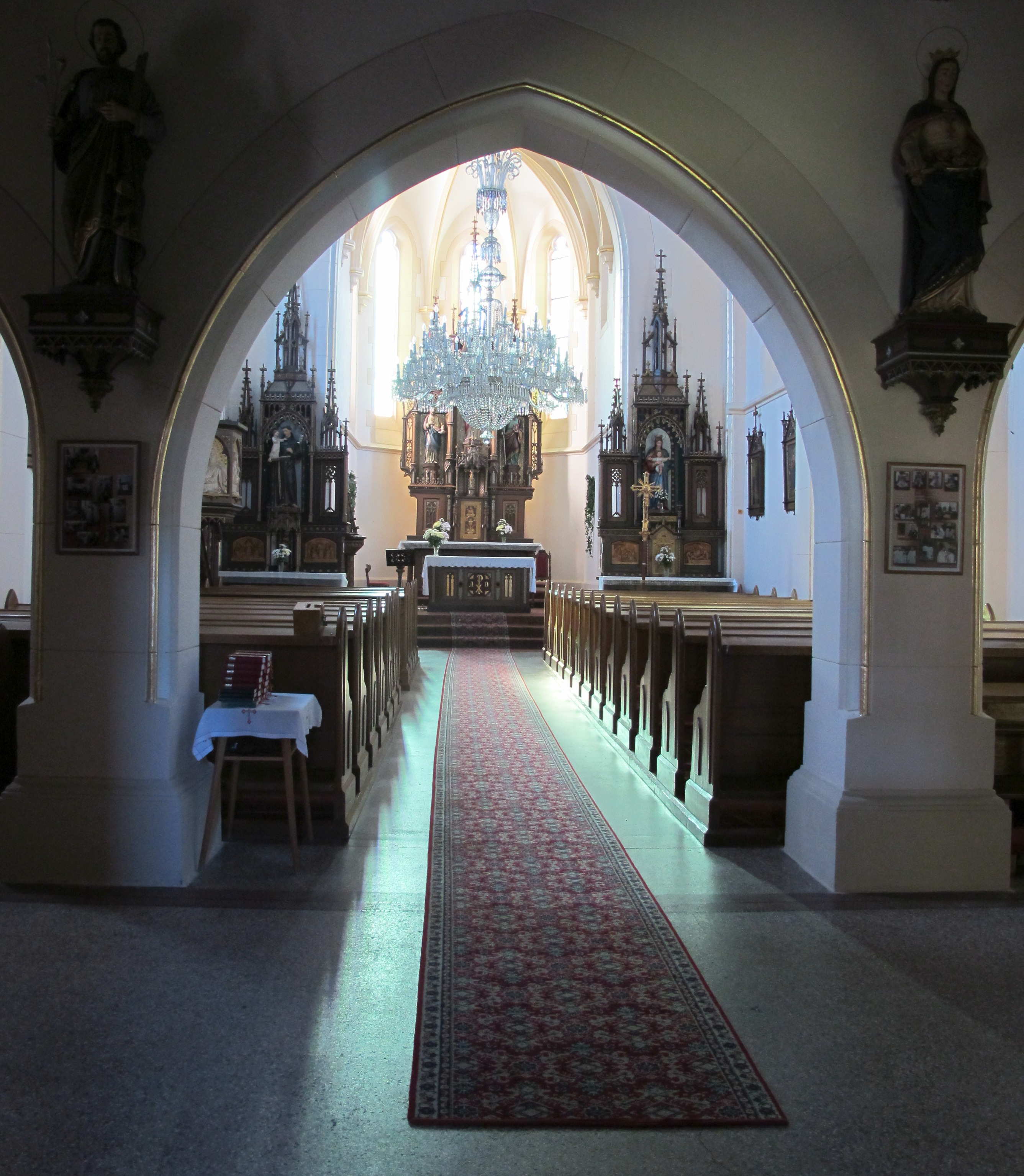 Church in Horní Maxov (part of the Town Lučany nad Nisou), Jablonec nad Nisou District in Czech Republic